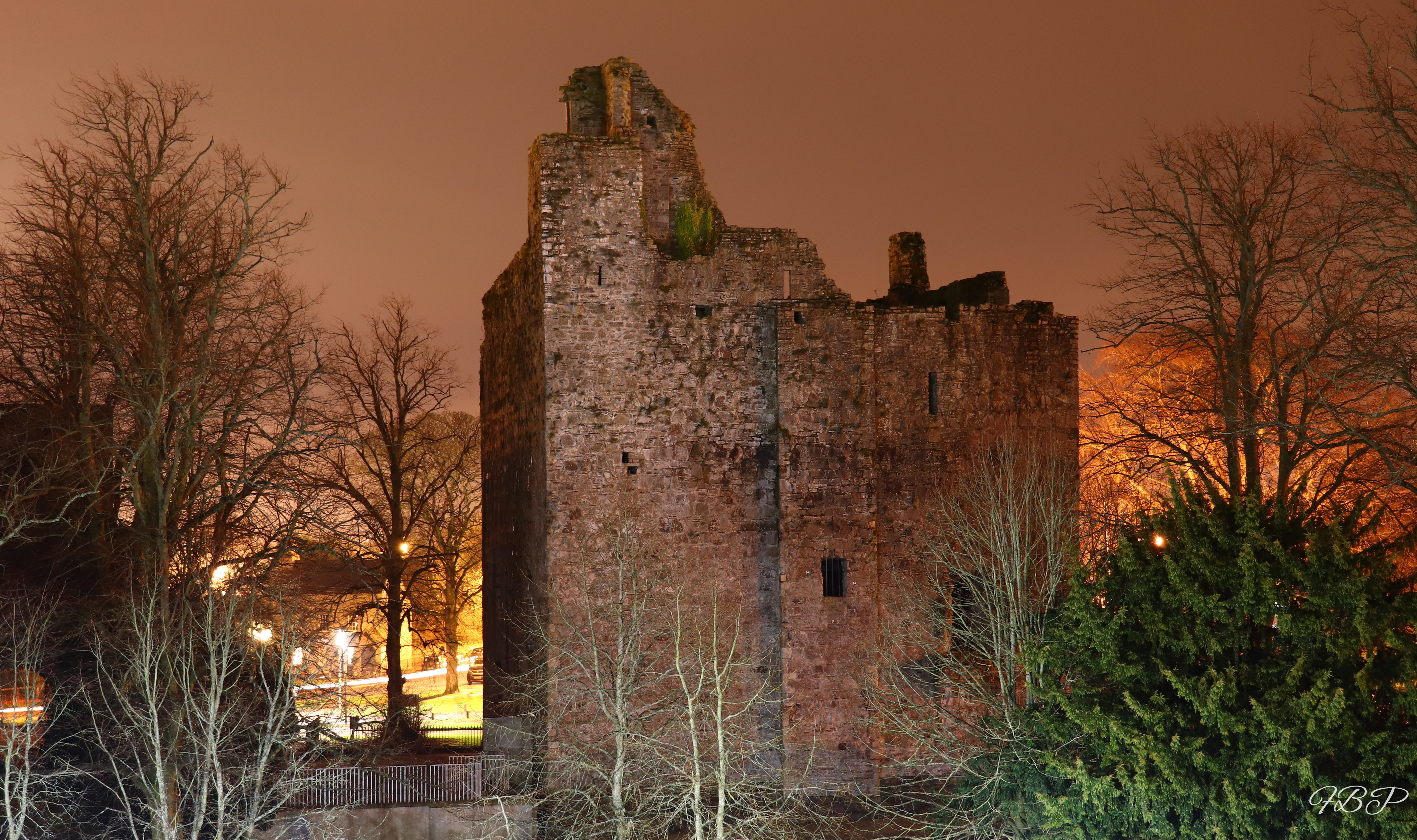 Maynooth, Maynooth Castle. Wikidata has entry Q6797465 with data related to this item.